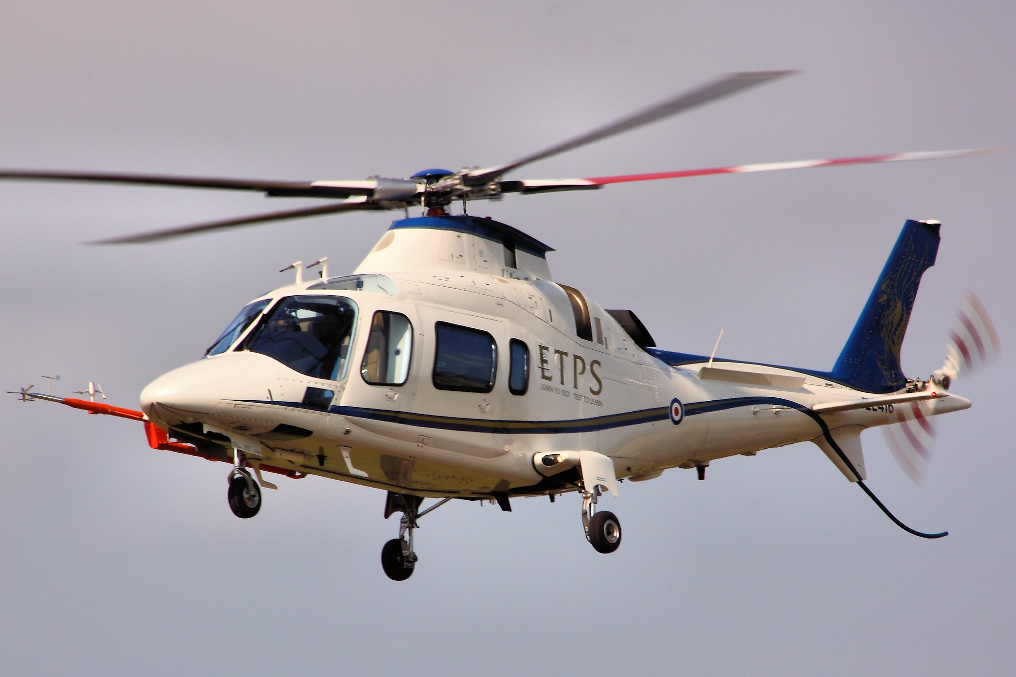 A109E Power - RIAT 2013